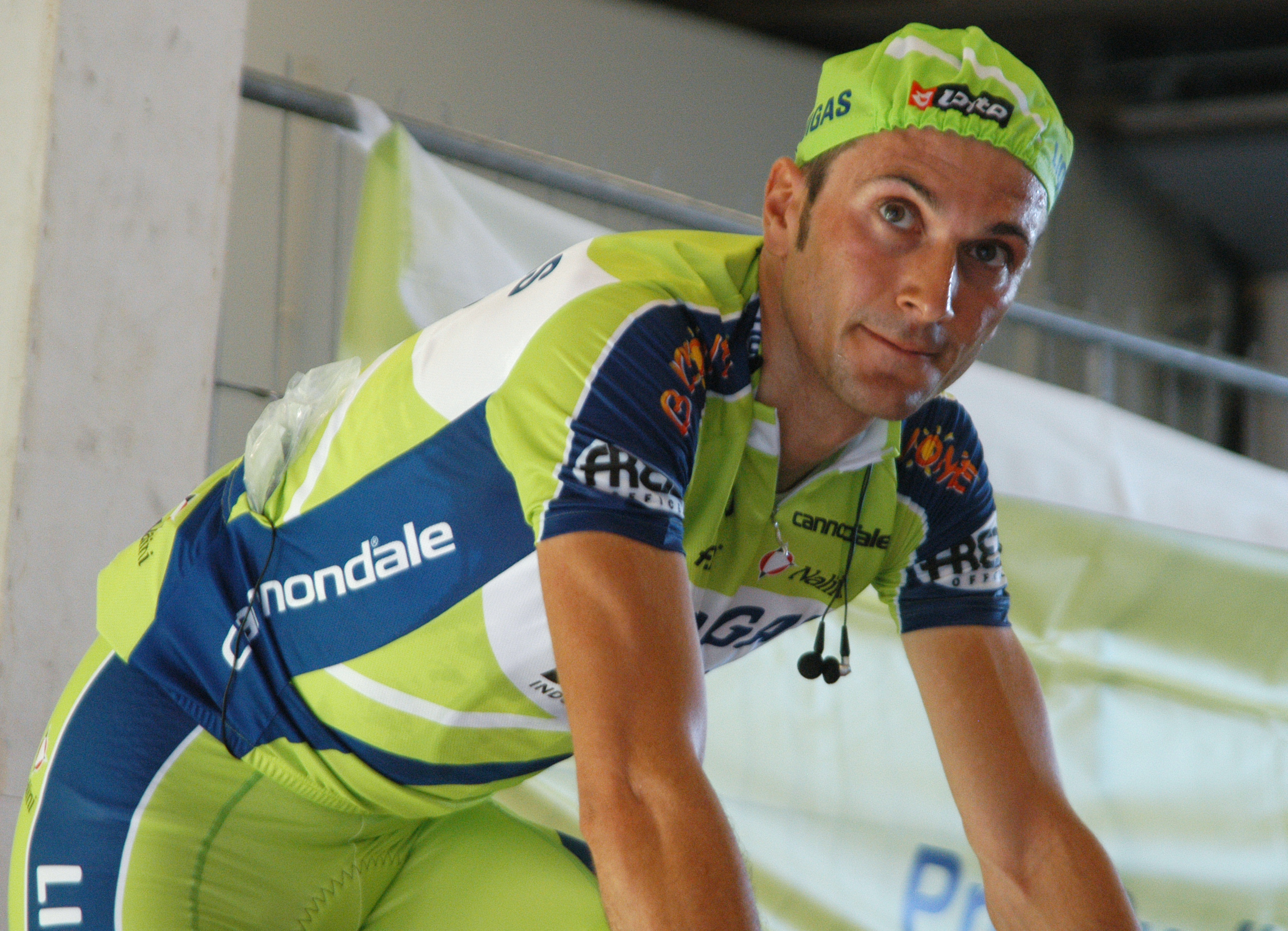 Ivan Basso (ITA) during the warming up for the first stage of the 2009 Vuelta a España at the TT circuit in Assen, the Netherlands.